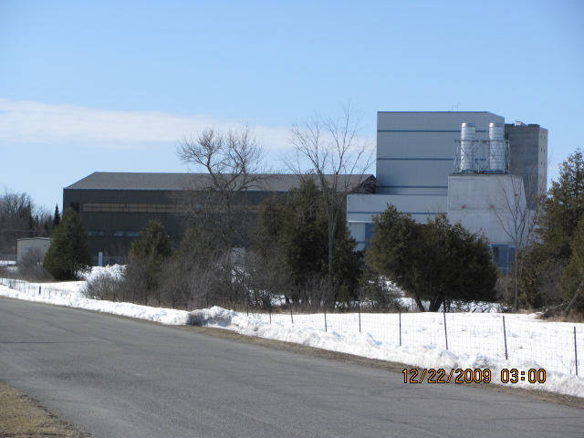 National Research Council of Canada, Institute for Research in Construction, Mississippi Mills, Ontario Research Facility, National Fire Laboratory